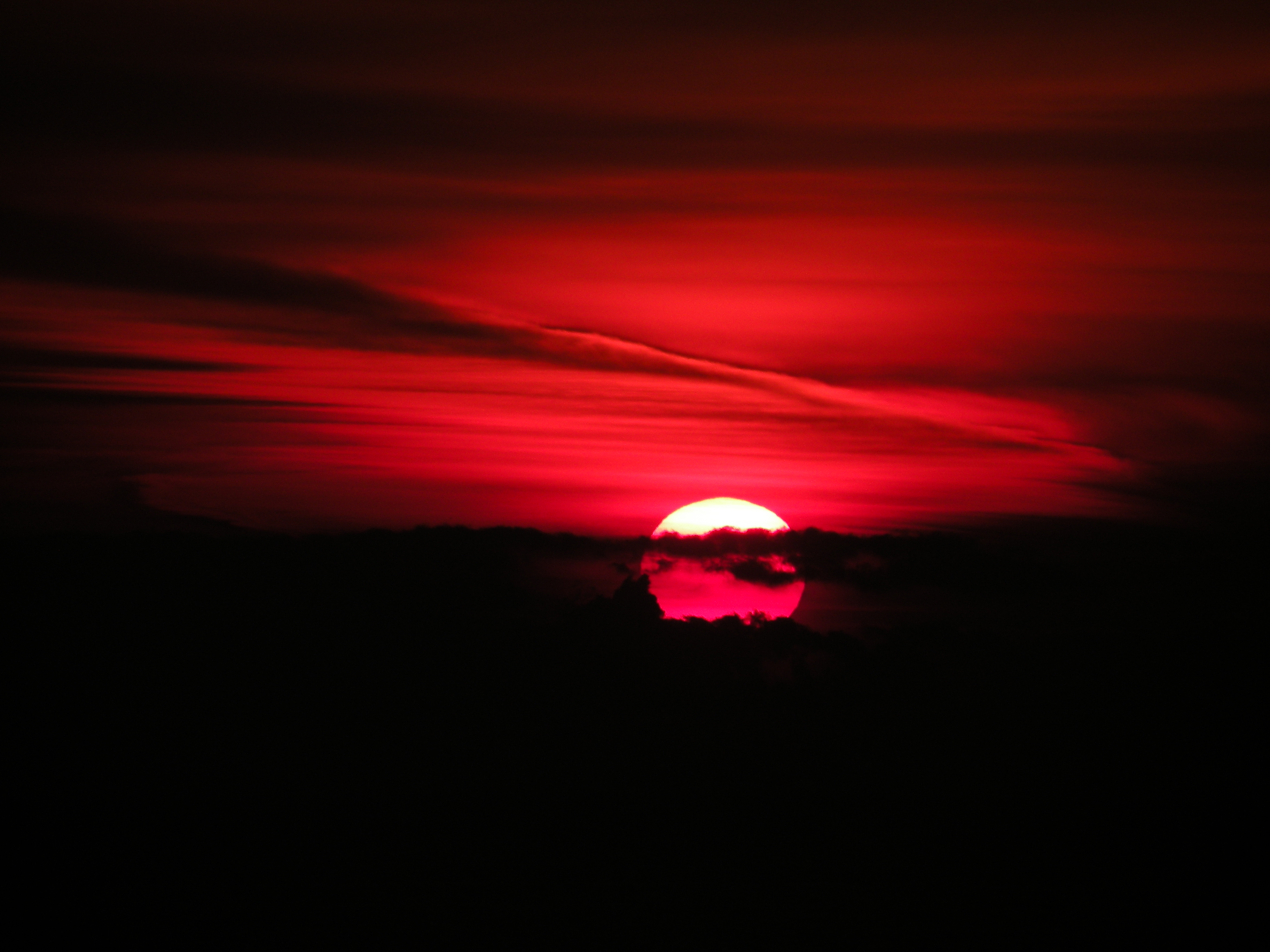 A red sunrise over the Black Sea.